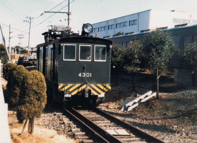 Hankyu4301